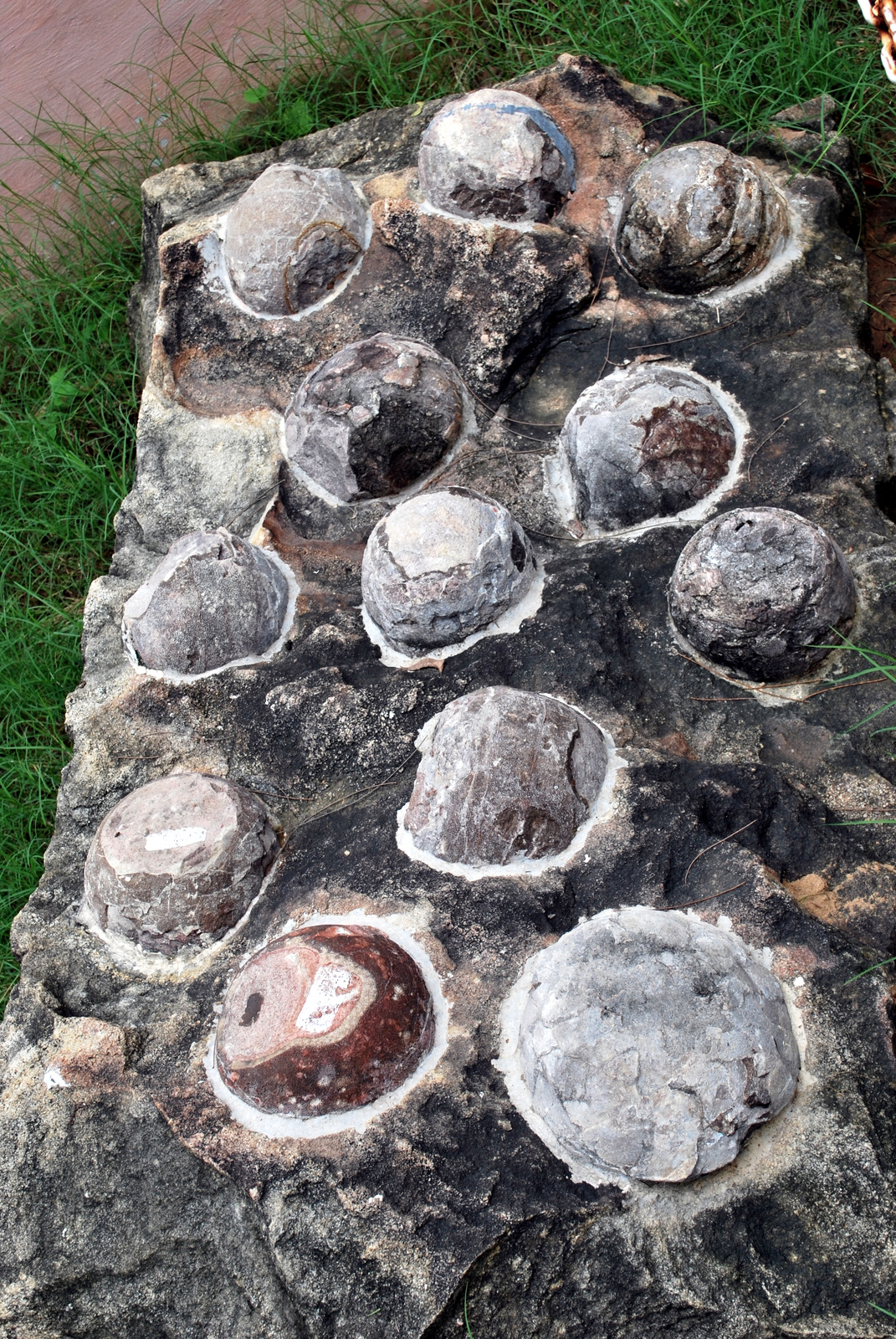 Image of fossilized dinosaur eggs found in India, currently displayed at Indroda Fossil Park, Gandhinagar, Gujarat INDIA